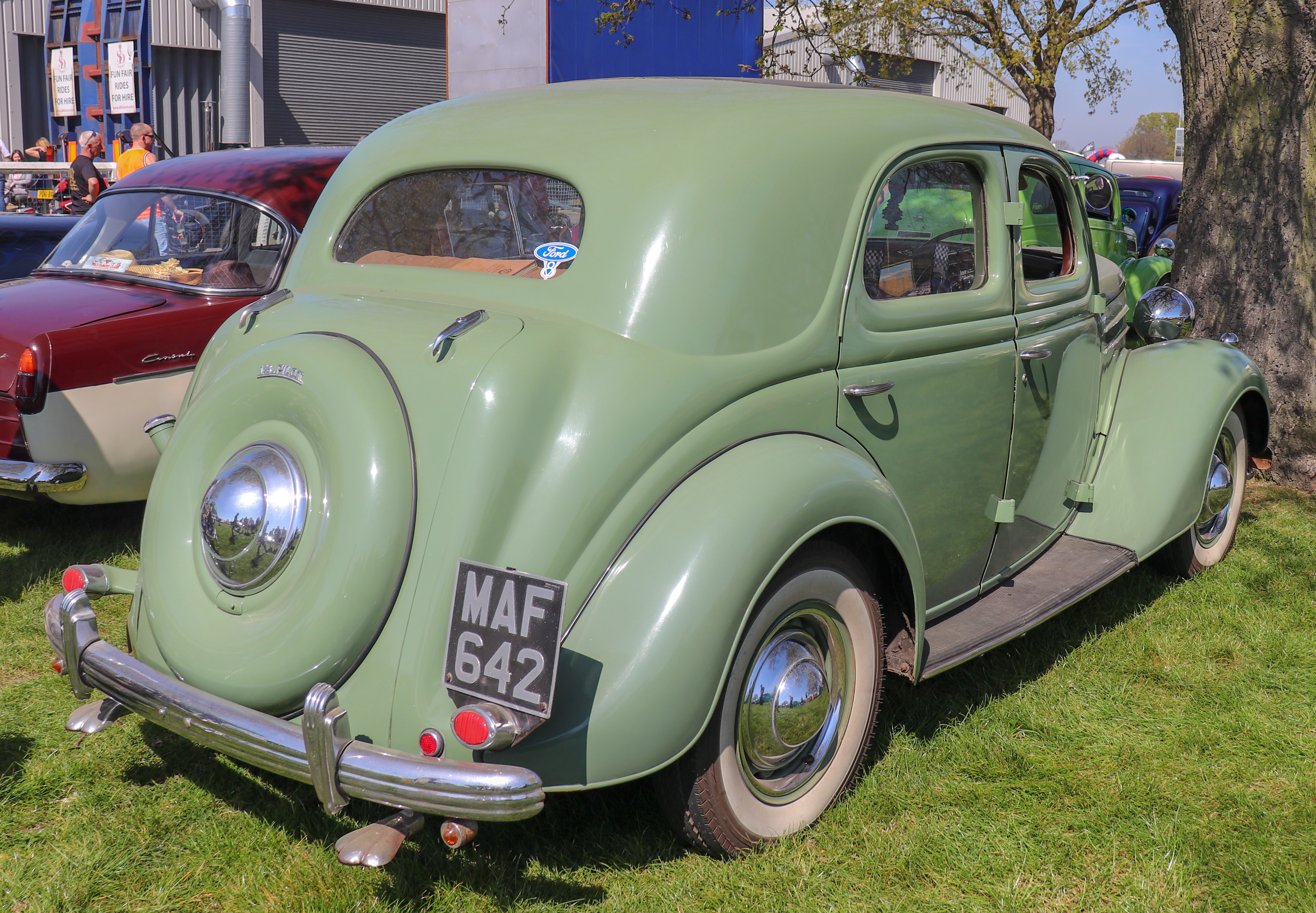 1949 Ford V8 Pilot 3.6 Rear Taken at the Midlands Auto Fest 2019 NAEC Stoneleigh, Stoneleigh, Coventry